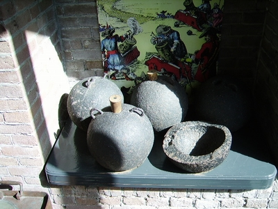 Firebomb old, fortified city Naarden